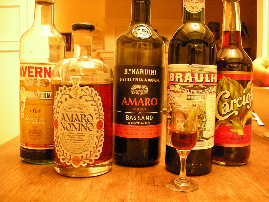 Steven Pav, 2007. released for unlimited duplication by the copyright holder. I took this picture in my dining room of some of my favorite bottles.